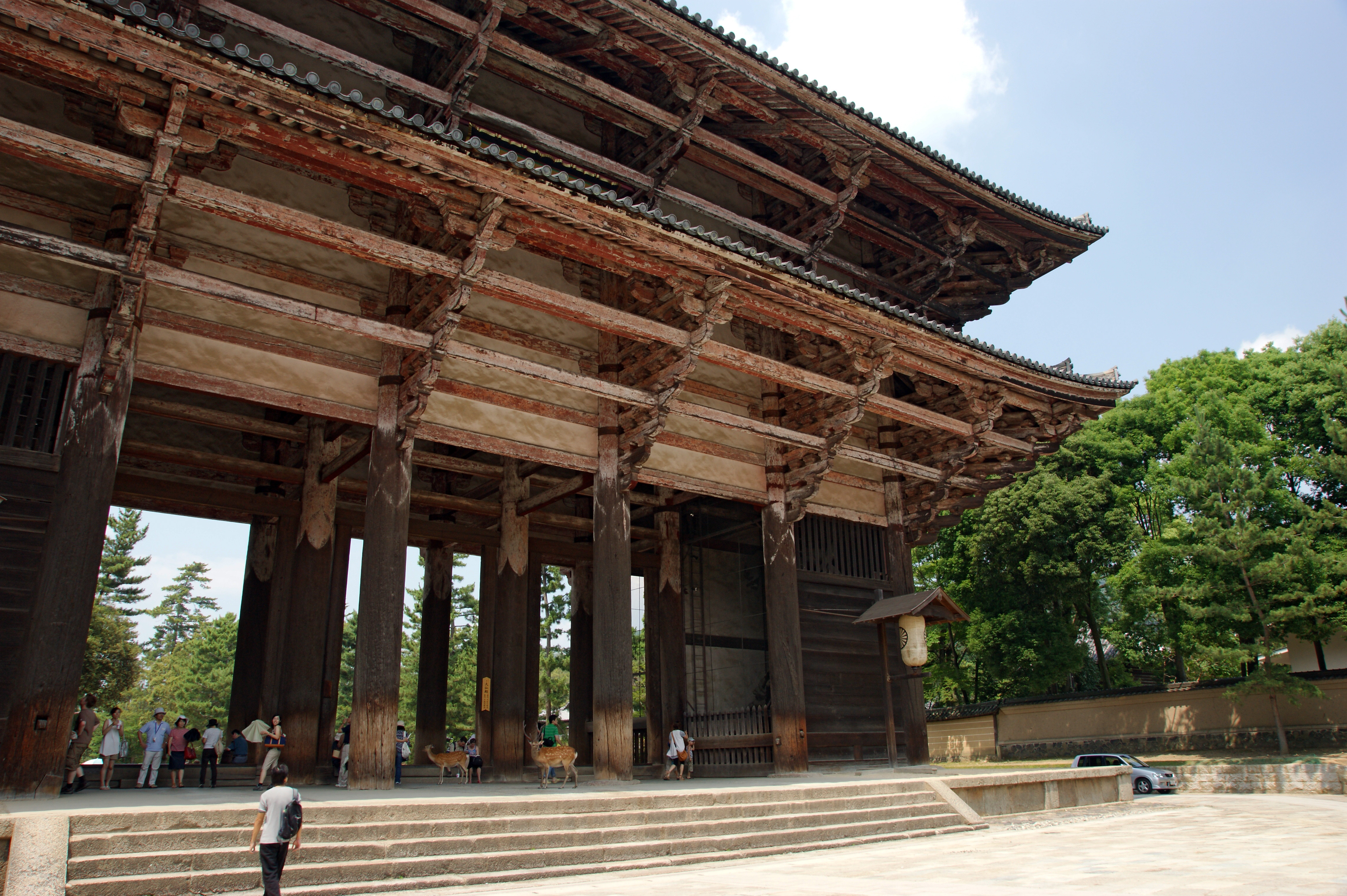 Todaiji in Nara, Nara prefecture, Japan